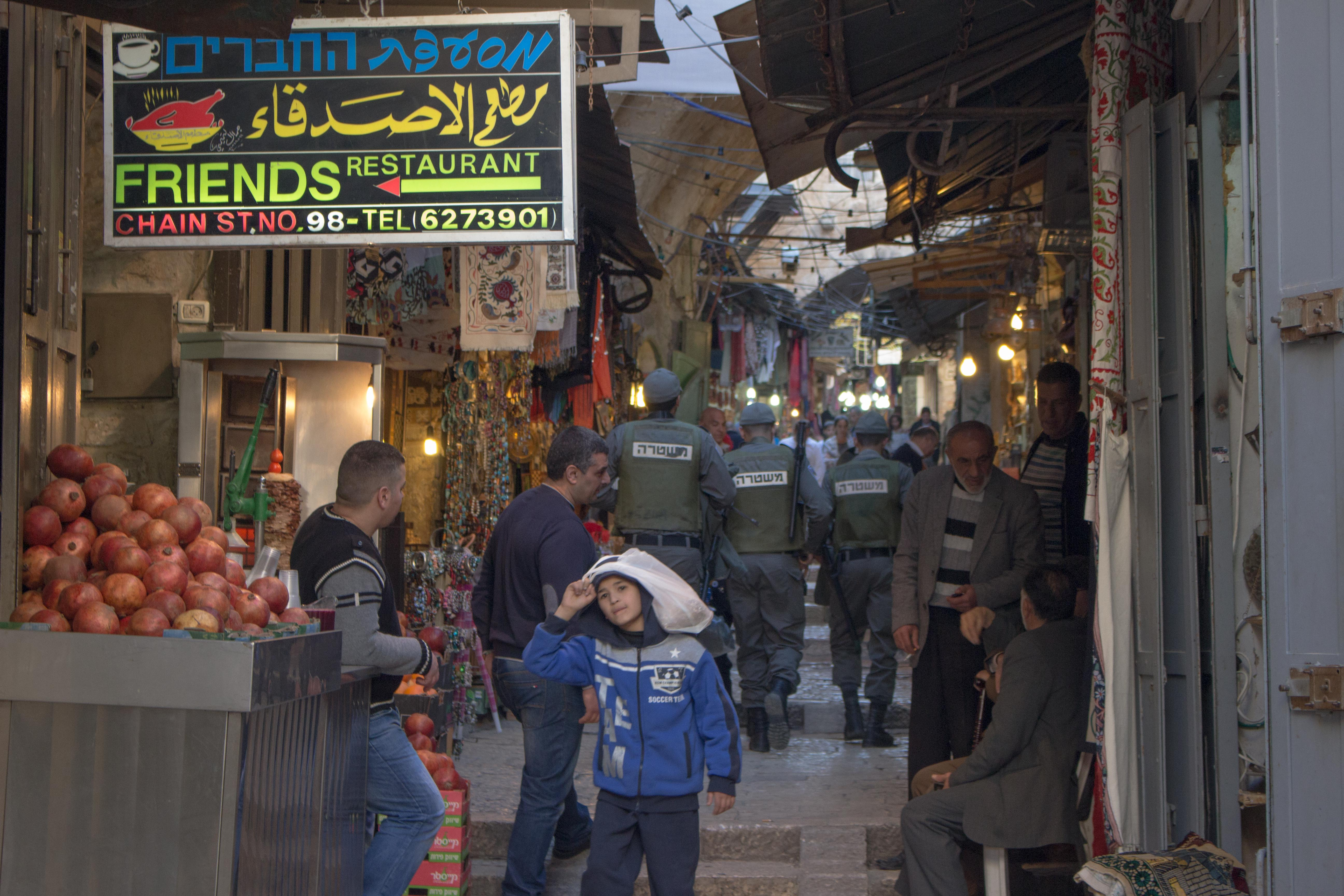 Old Jerusalem, Hashalshelet Street - Israeli soldiers on patrol in Jerusalem's Old City, February 2016